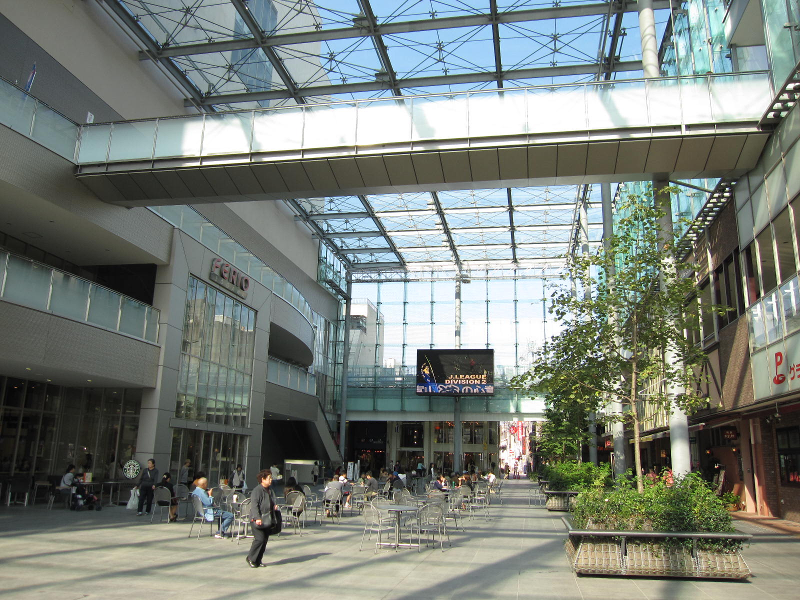 Sogawa Ferio Grand Plaza in Toyama Japan